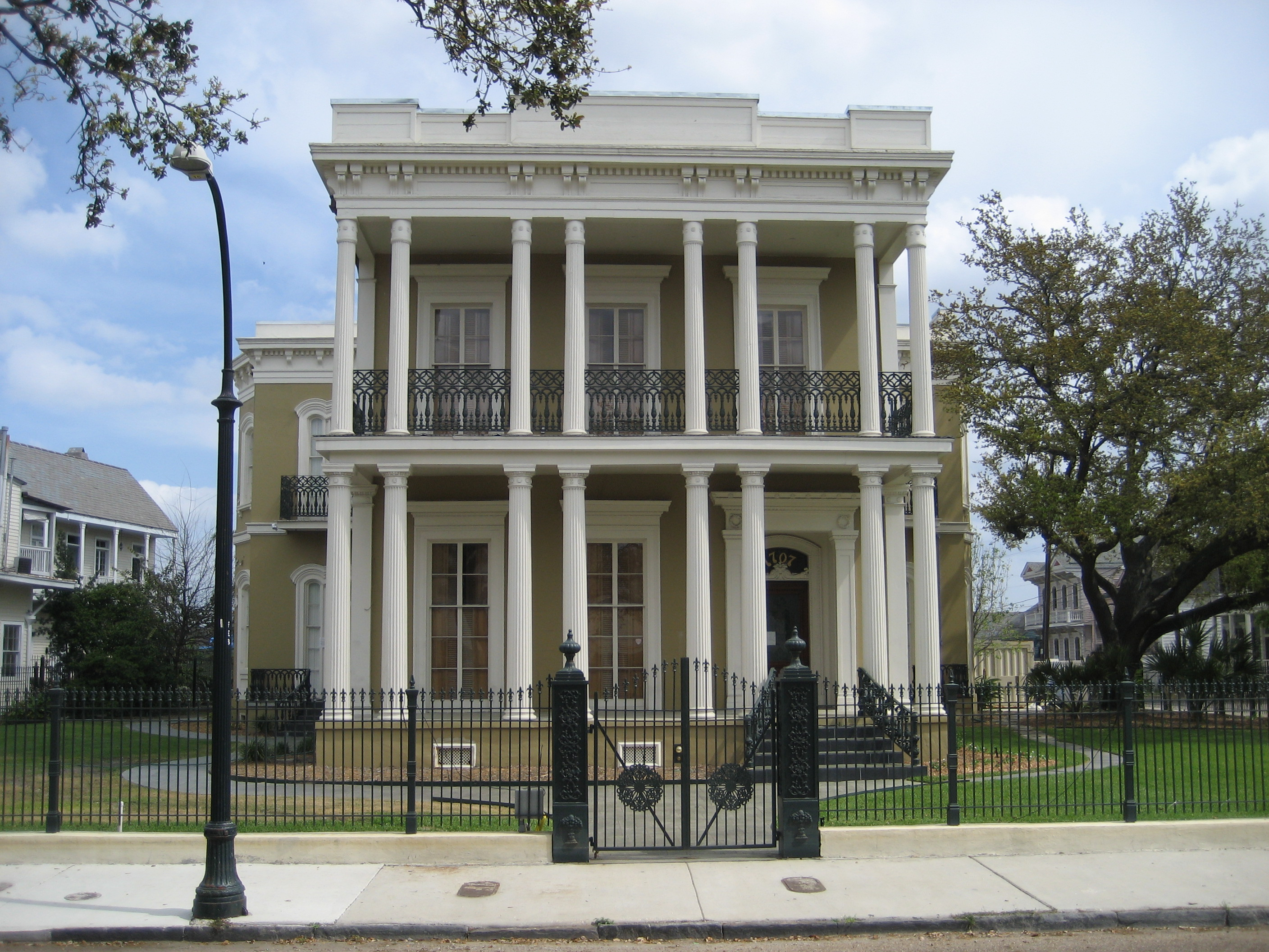 New Orleans: Dufour-Baldwin House seen from Esplanade Avenue.